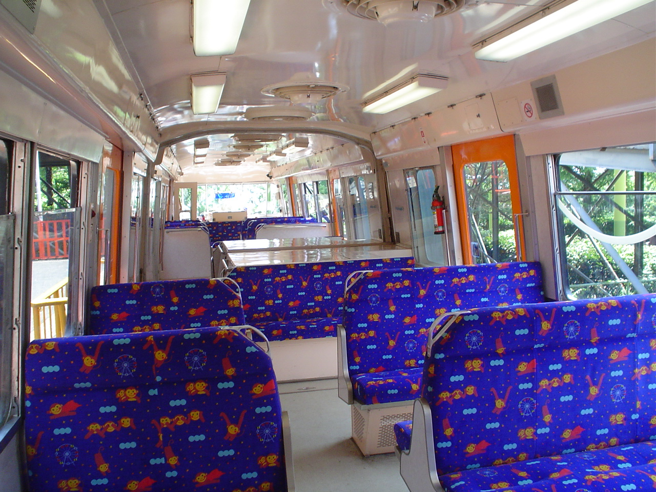 Monkey Park Monorail Line - MRM100 inside picture